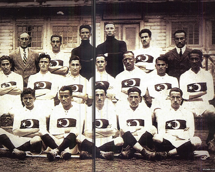 Turkey national football team in 1924